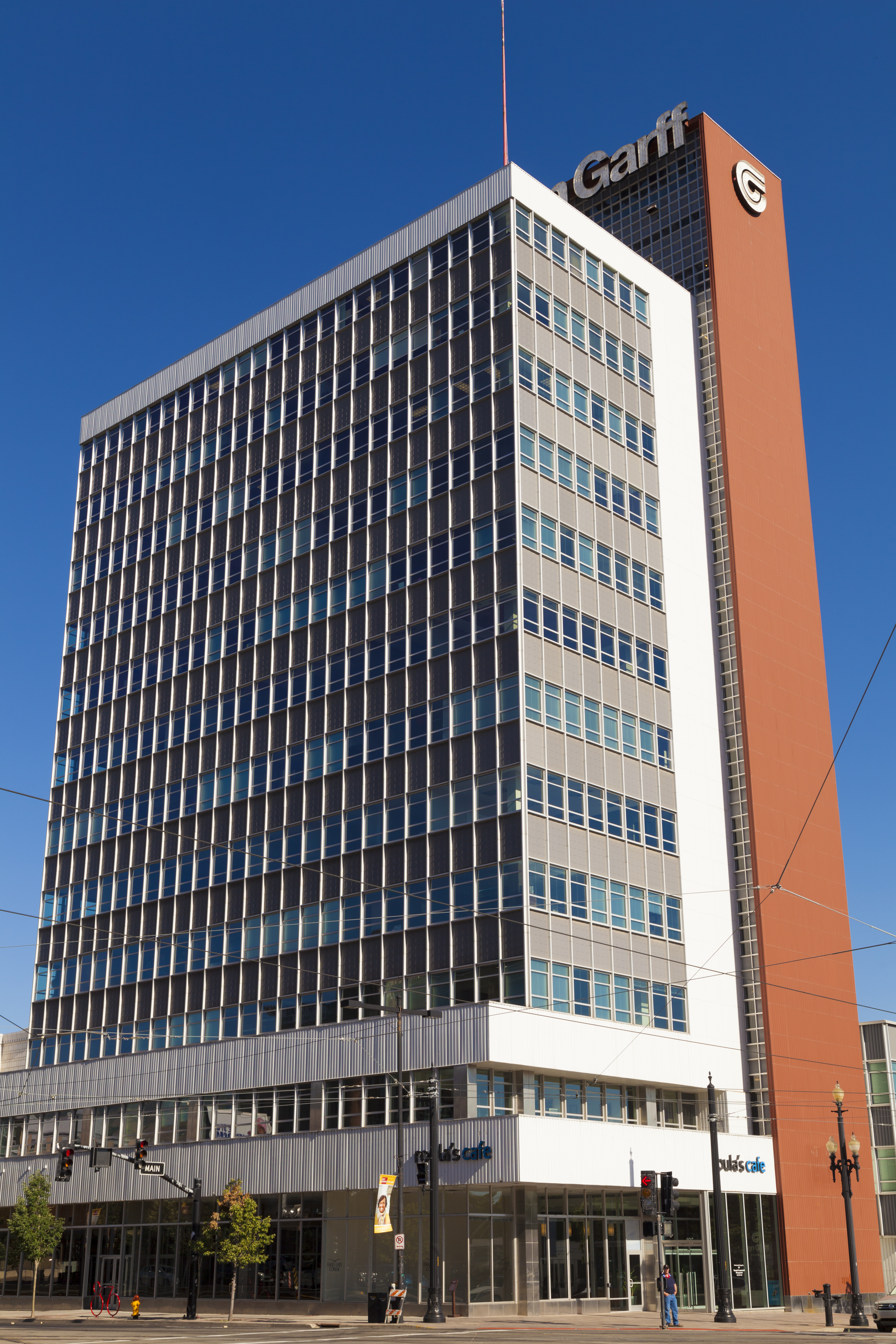 Ken Garff Building in Salt Lake City, Utah, USA.